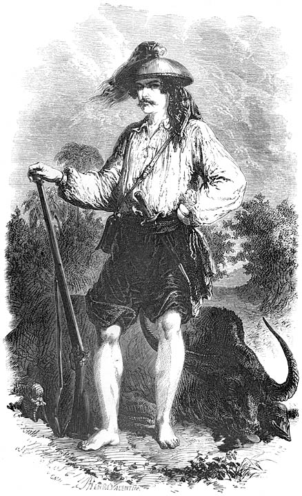 Paul de la Gironière in Filipino hunting costume, early 1800s. Original caption: P. de la Gironière. - Costume de chasse. From Aventures d'un Gentilhomme Breton aux iles Philippines by Paul de la Gironière, published in 1855.